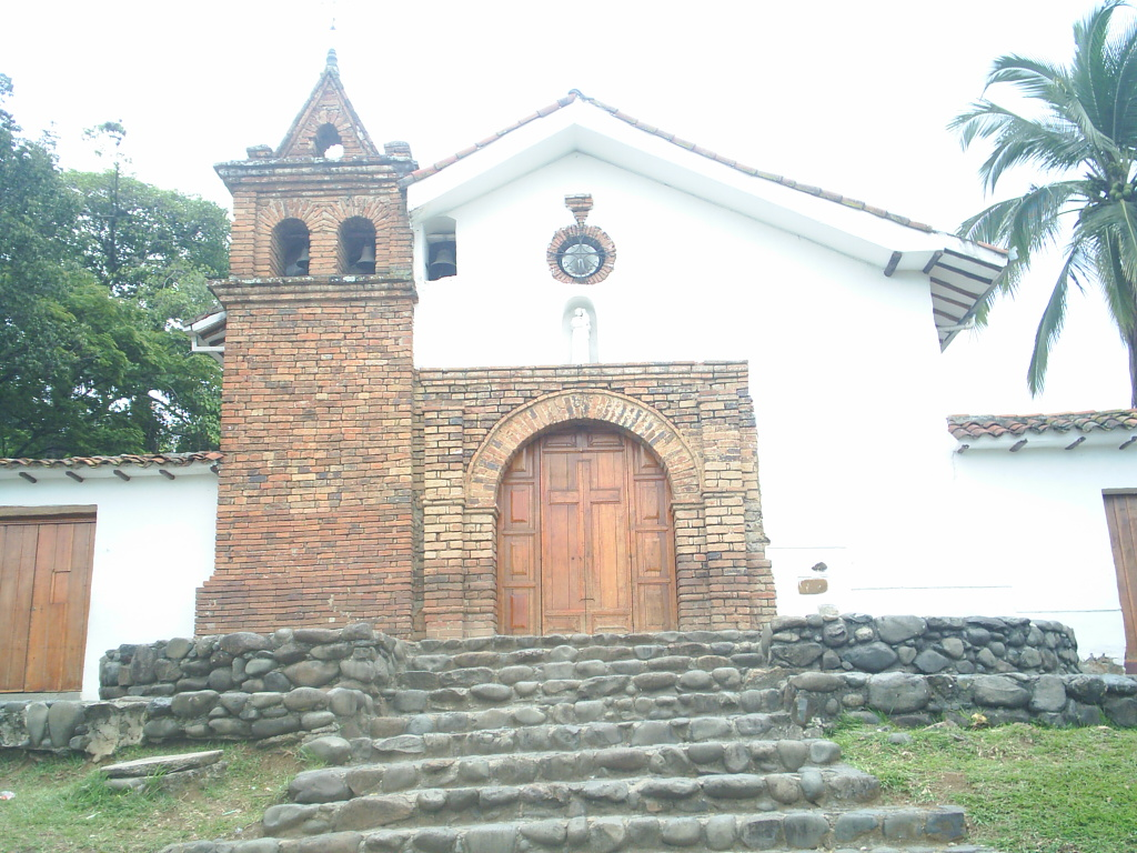 San Antonio Chapel